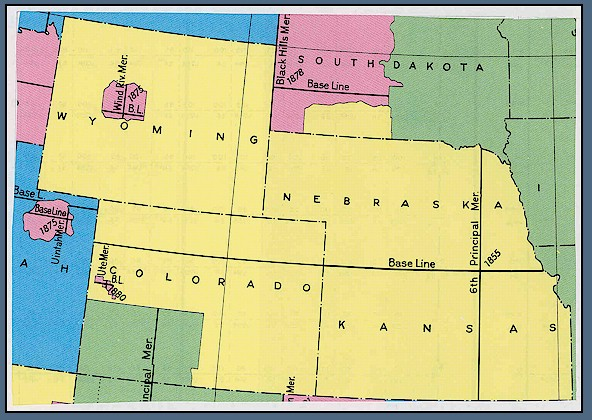 U.S. Bureau of Land Management map showing principal meridians and base lines used for cadastral surveys.